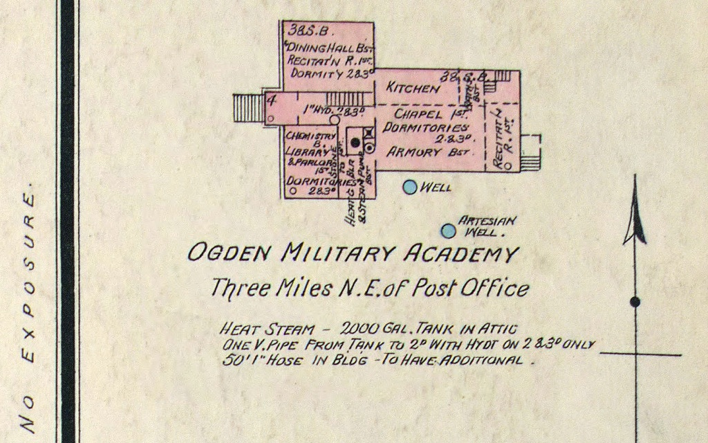 Layout of the Ogden Military Academy, which became the Utah State Industrial School in 1896. Taken from a fire insurance map of Ogden, Utah prepared by the D.A. Sanborn Map Company.